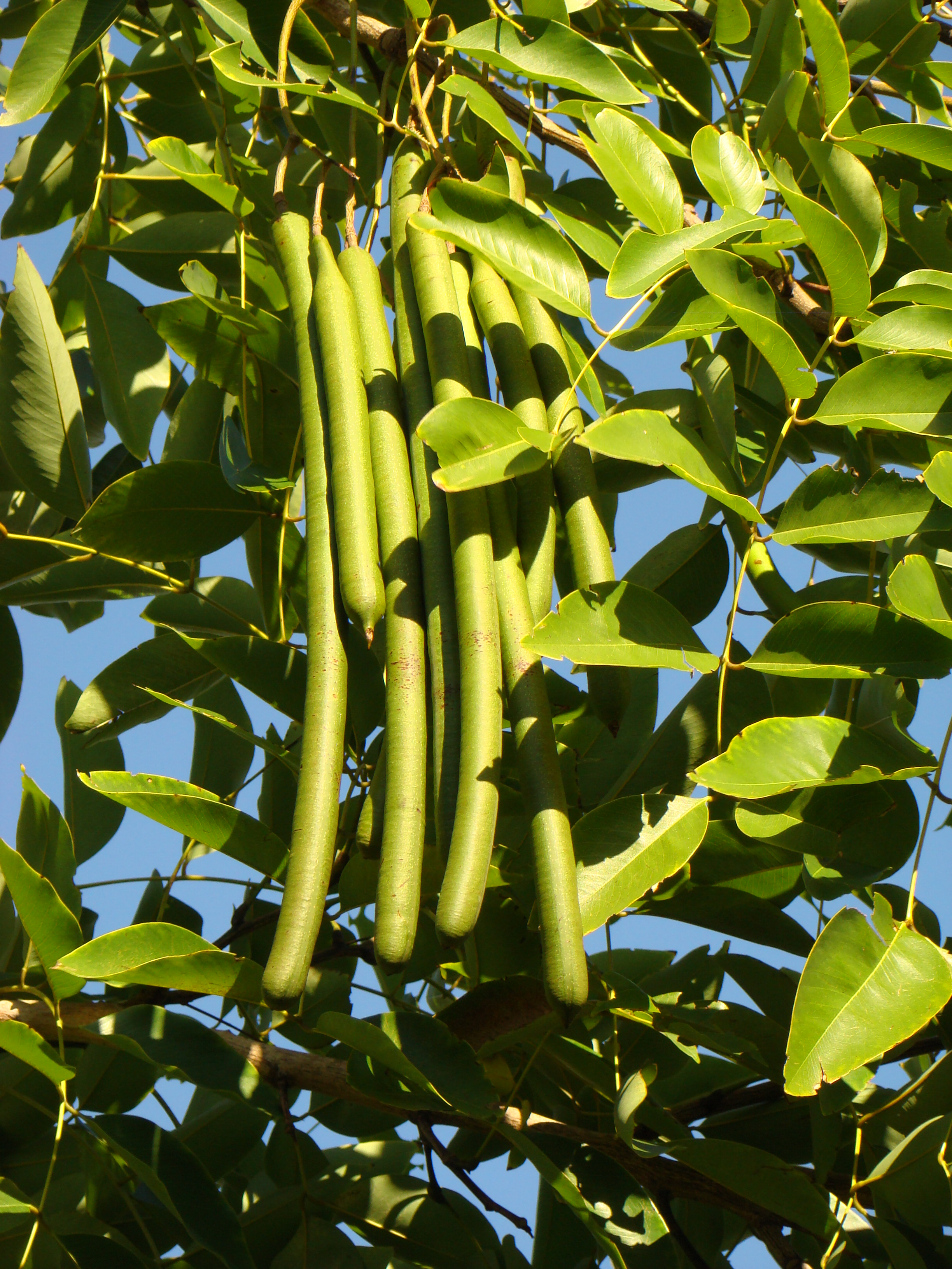 Clusters of unripe fruits hanging from a Golden Shower tree (Cassia Fistula / Fabaceae) at the Palma Sola Botanical Park, Bradenton, Florida.